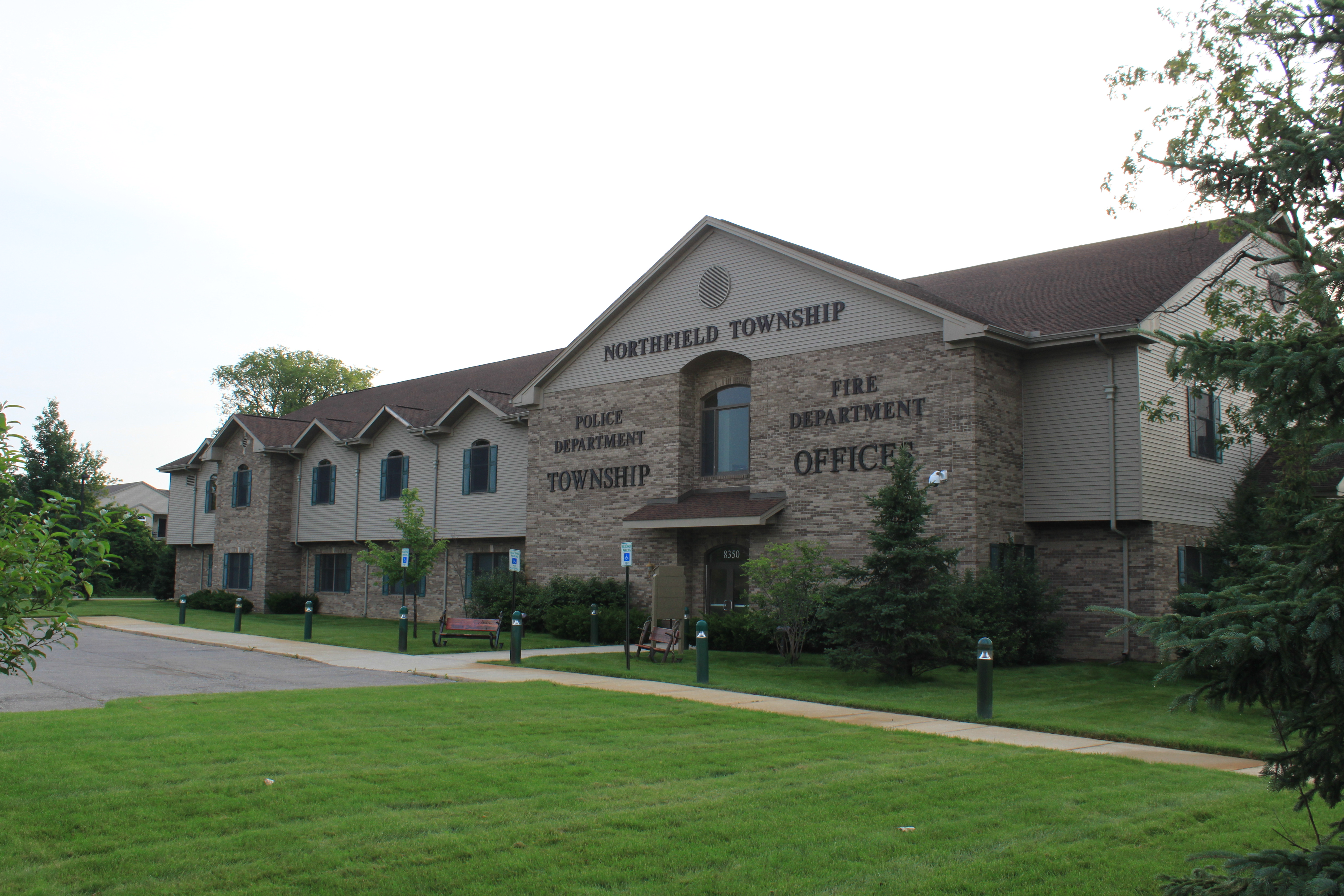 Northfield Township Offices, Michigan, 8350 Main Street